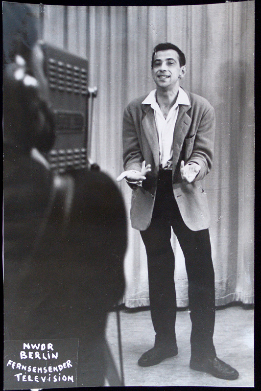 Mime artist Jean Soubeyran during a lecture about "Mime" at NWDR TV